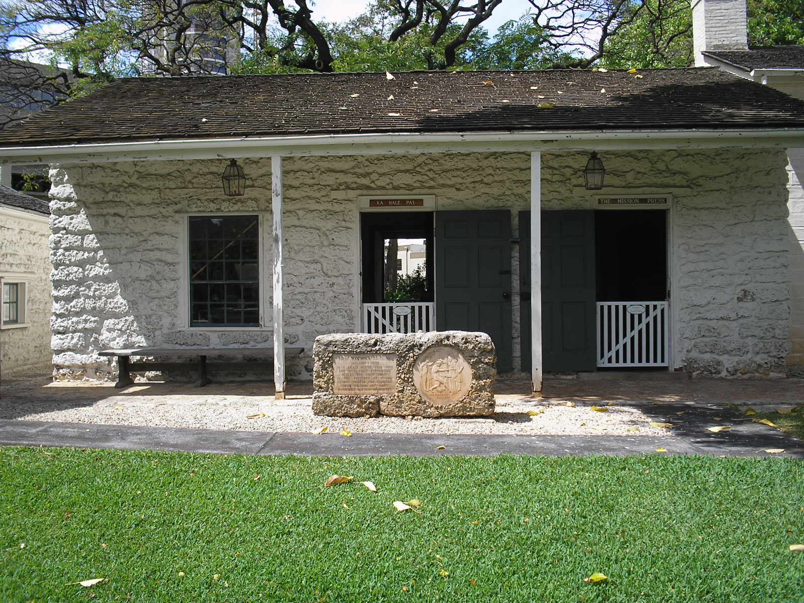 Printing Press Building, Mission Houses Museum, Honolulu, Hawaii, on National Register of Historic Places: "First Hawaiian Printing. January 7, 1822. In a grass house near this site High Chief Keeaumoku pulled the first sheet in the presence of Elisha Loomis, printer; the Reverend Hiram Bingham; and James Hunnewell, mission benefactor." (quote from memorial plaque in front of building)